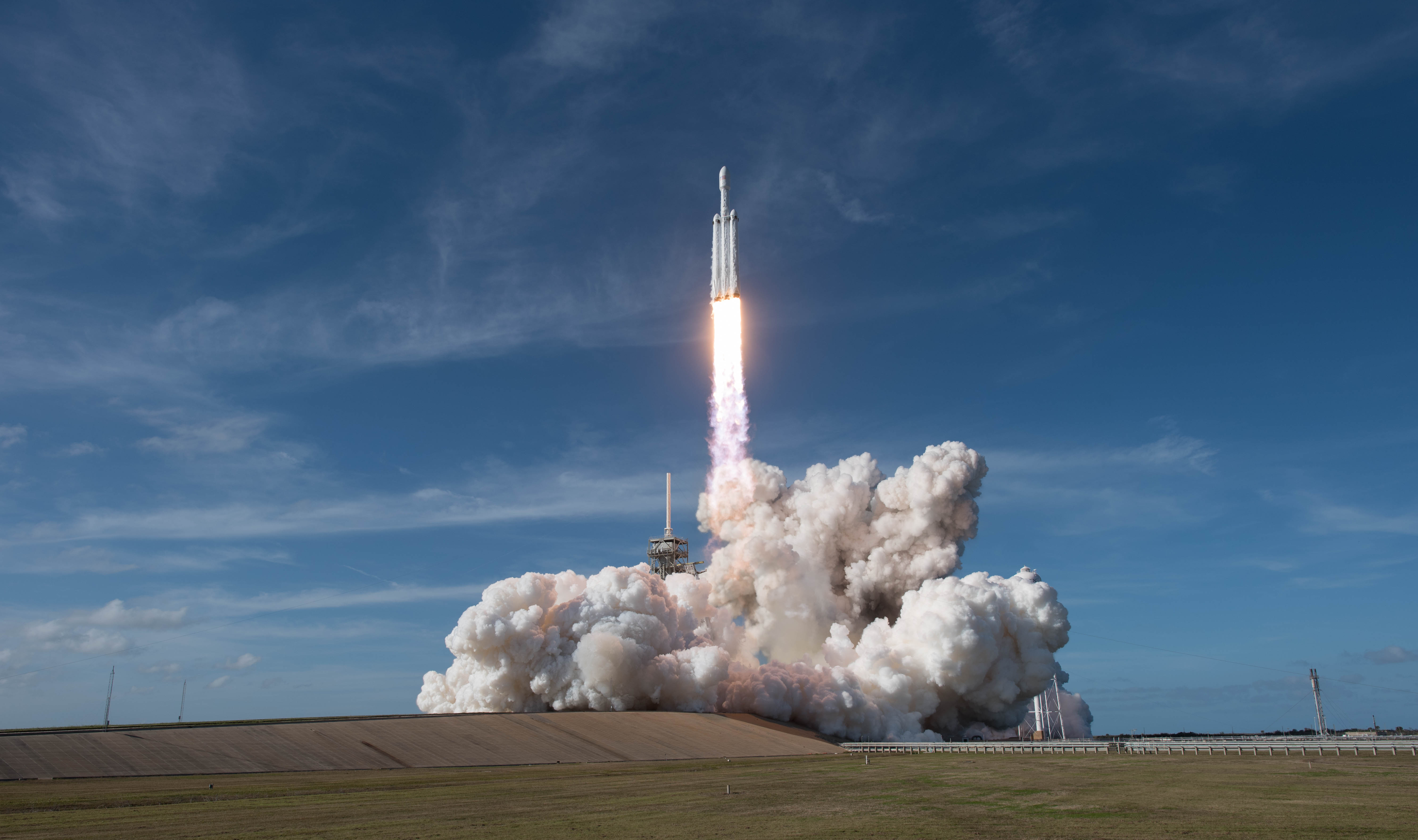 The first launch of the SpaceX Falcon Heavy Rocket on January 6, 2018 from Kennedy Space Center.